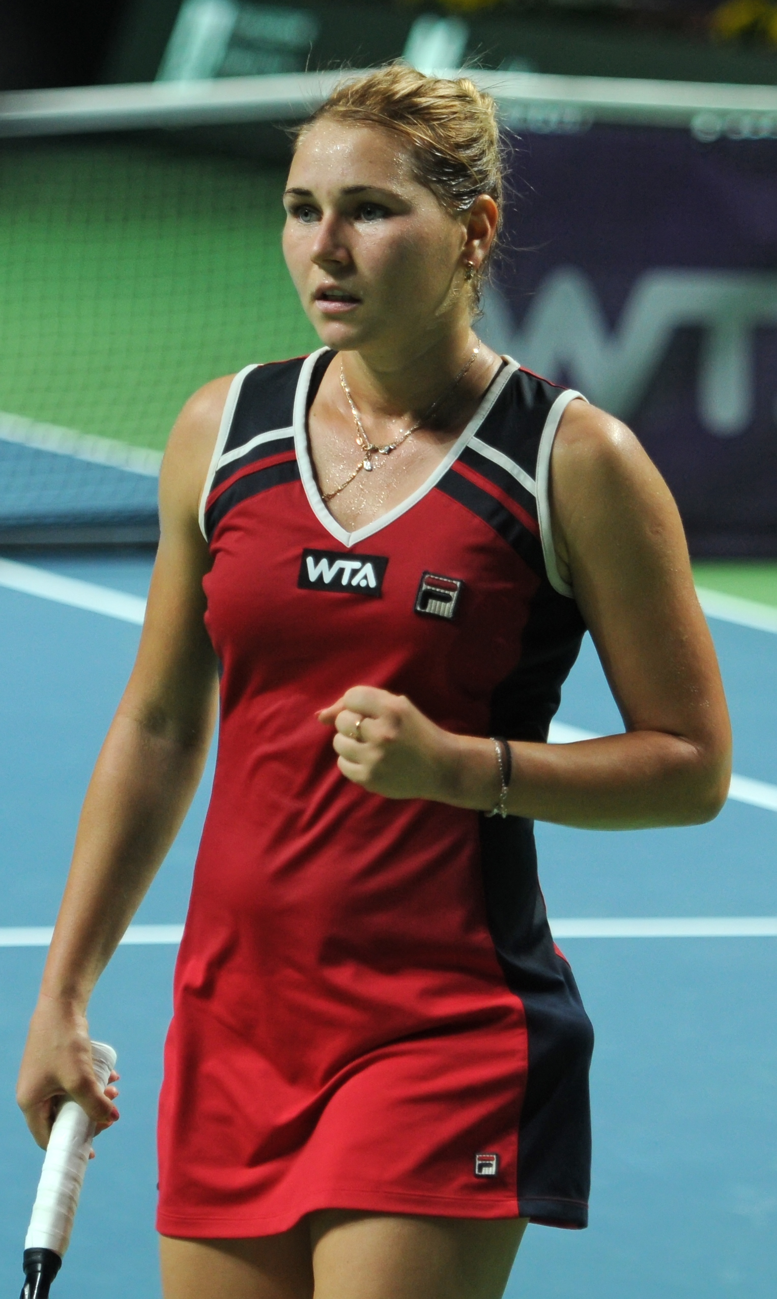 Valeria Solovyeva at the 2014 Kremlin Cup